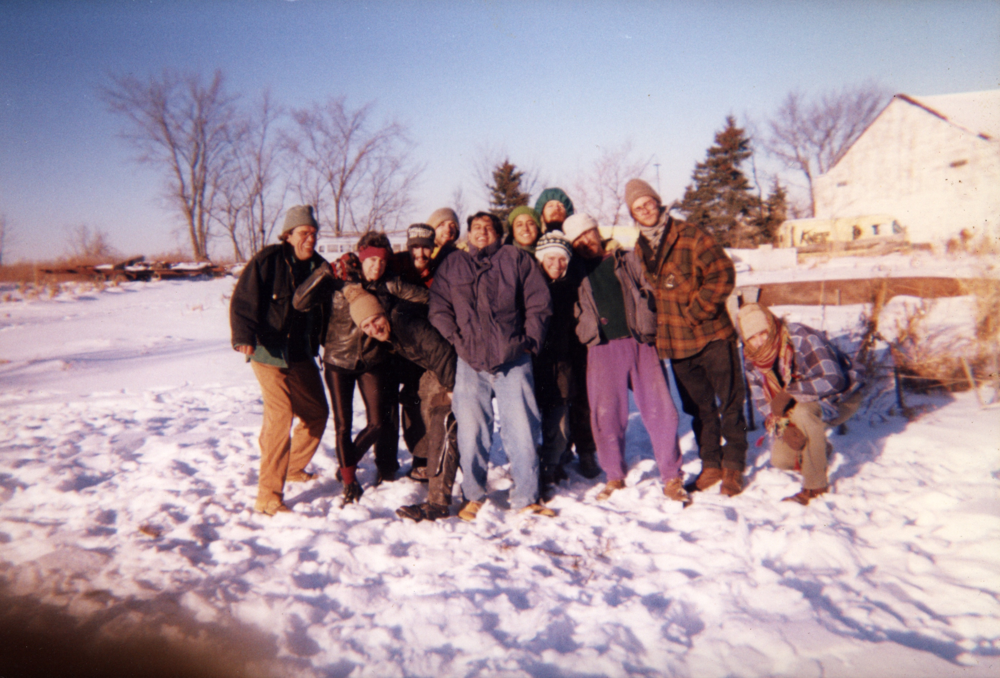 Dreamtime Village residents including Brad Will